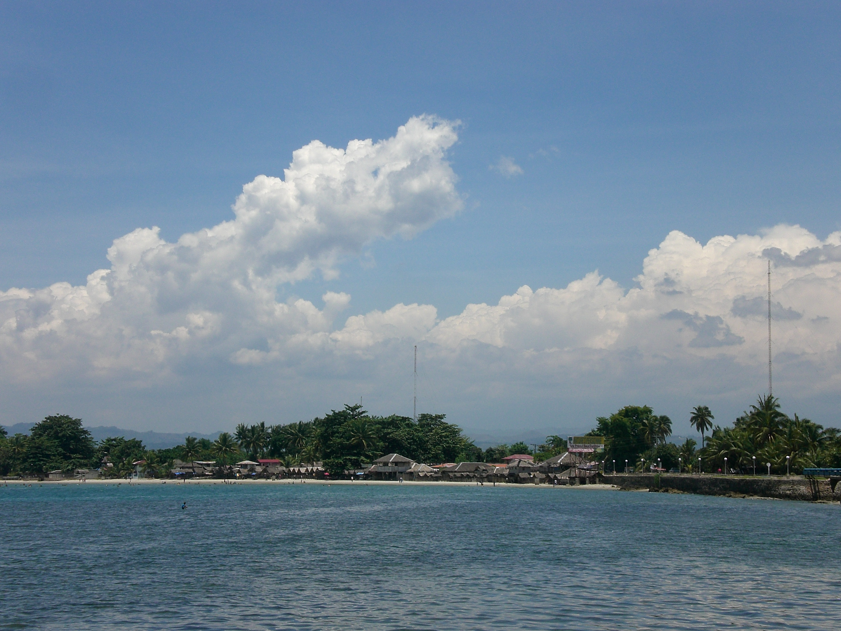 Beach front at Opol, Misamis Orienta